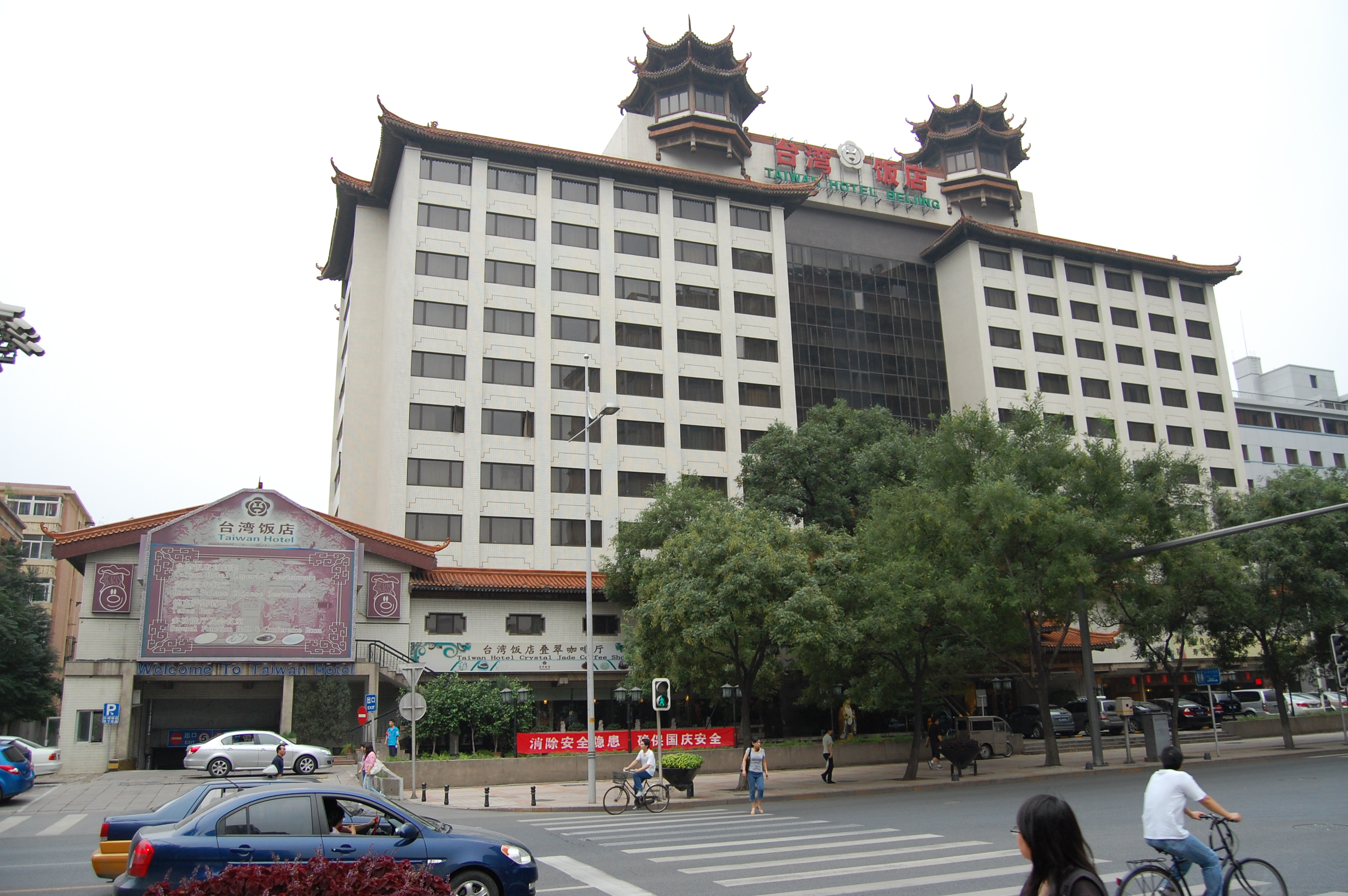 Taiwan Hotel (S: 台湾饭店, T:臺灣飯店, P: Táiwān Fàndiàn) in Beijing - No.5 Wangfujing Jinyu Hutong, Dongcheng District, Beijing